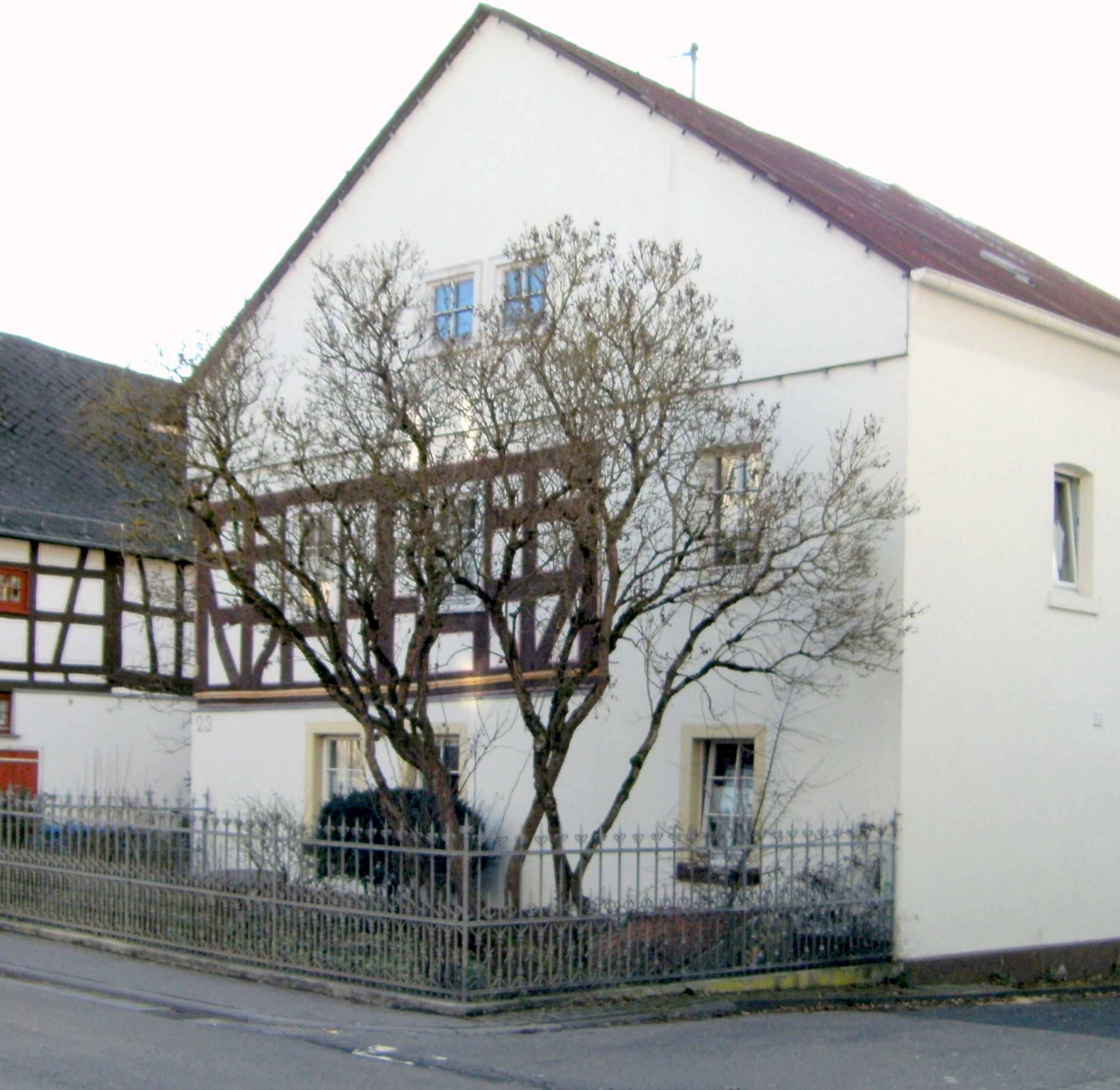 Parent House of Valentin Horn in Langstraße, 65589 Hadamar-Steinbach, Germany